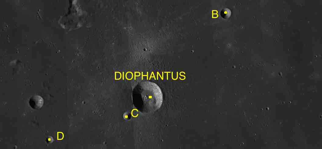 Part of the chart LAC-39 used for the presentation